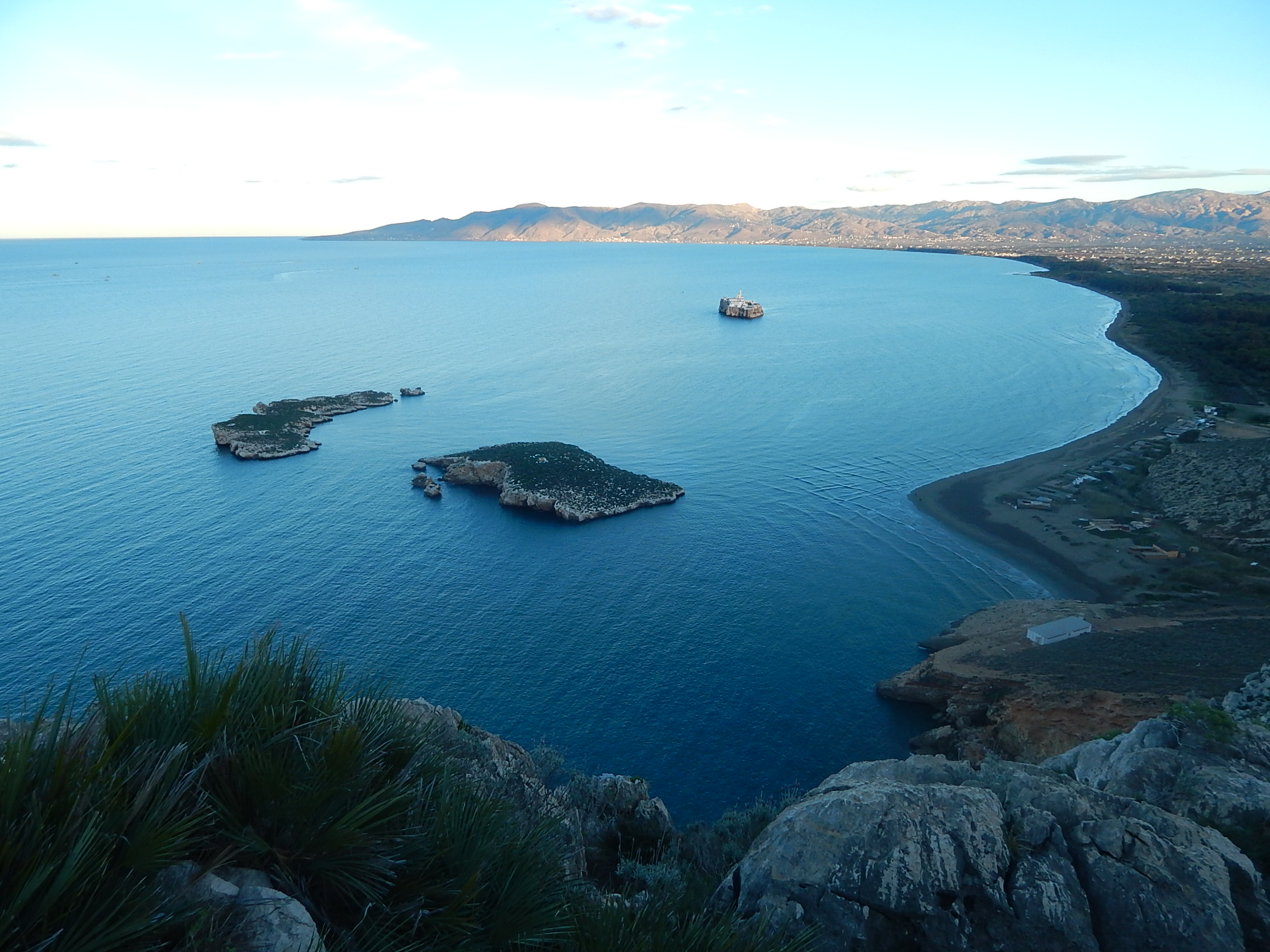 the image is of the three Alhucemas, Spain close to Morocco